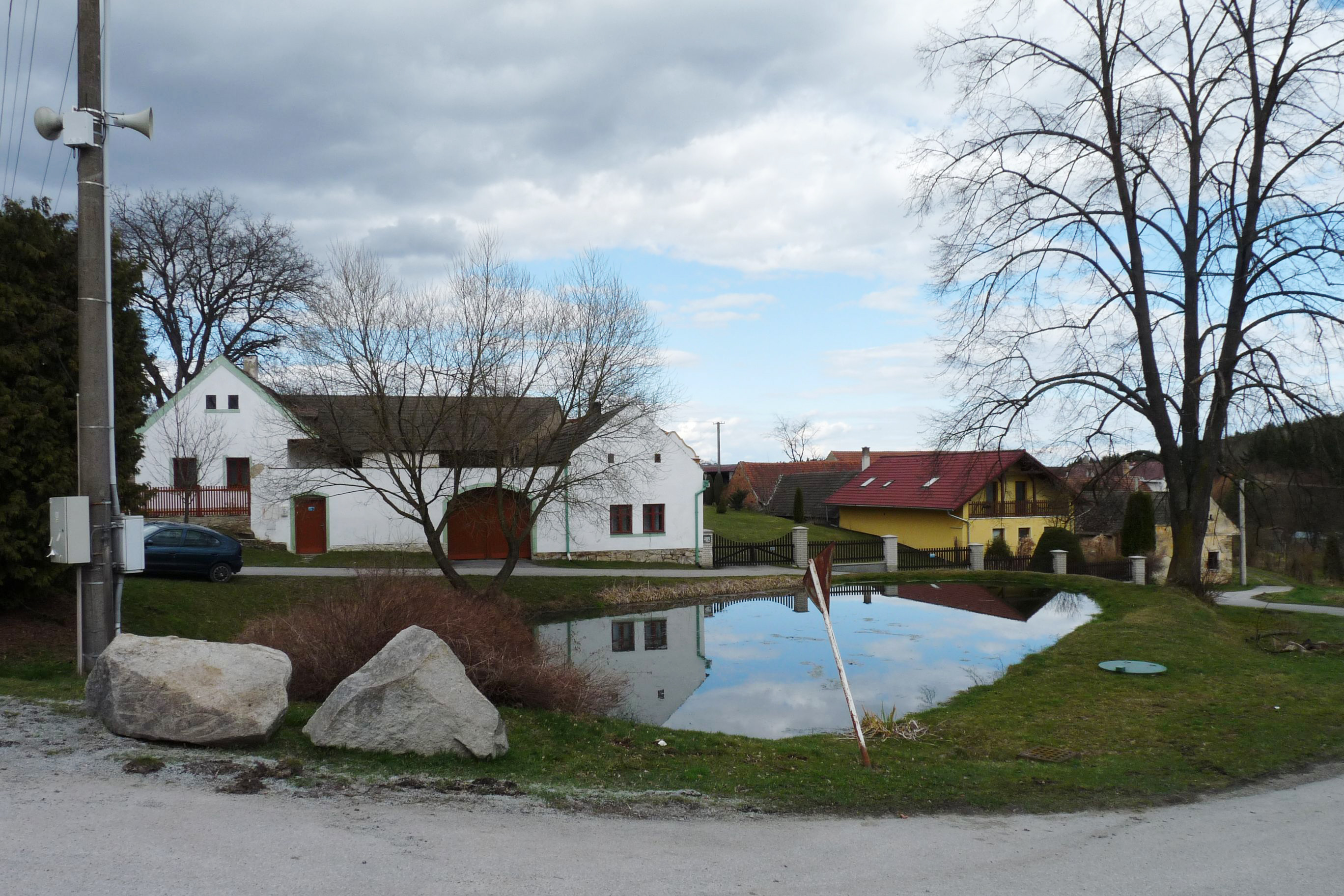 House No 2 in the village of Boršíkov, České Budějovice District, South Bohemian Region, Czech Republic.